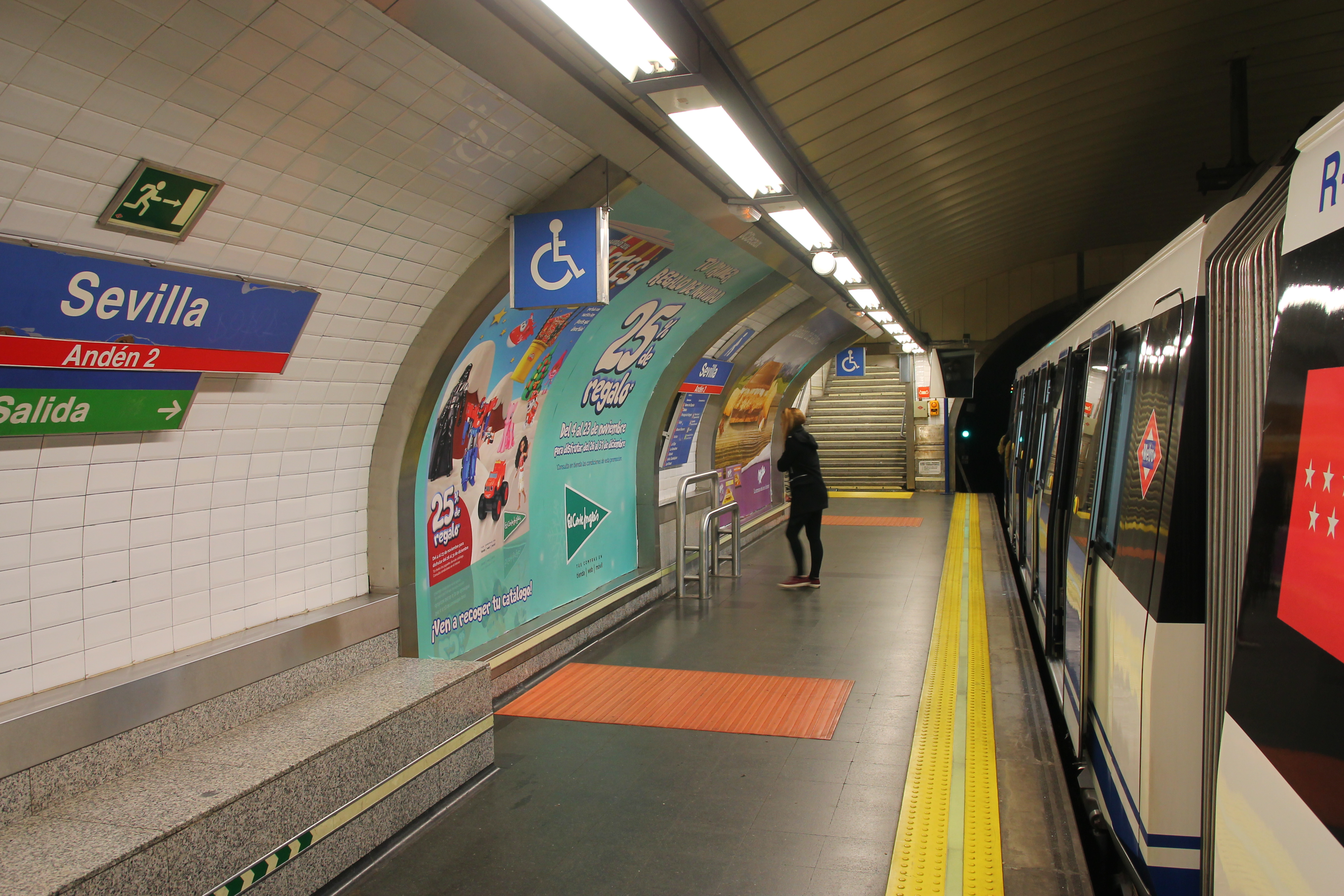 Estación de Sevilla